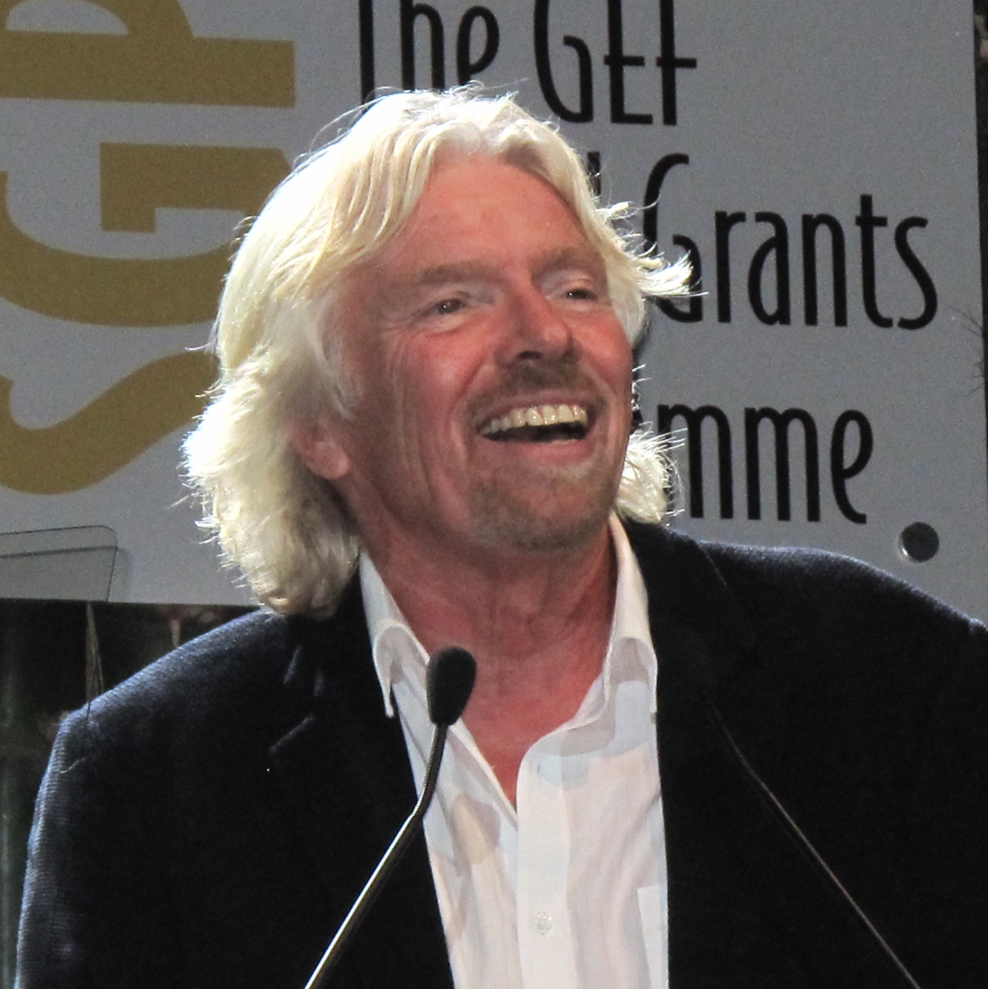 Richard Branson at the Rio Conventions Pavilion at Rio+20 - the United Nations Conference on Sustainable Development, 13-22 June 2012